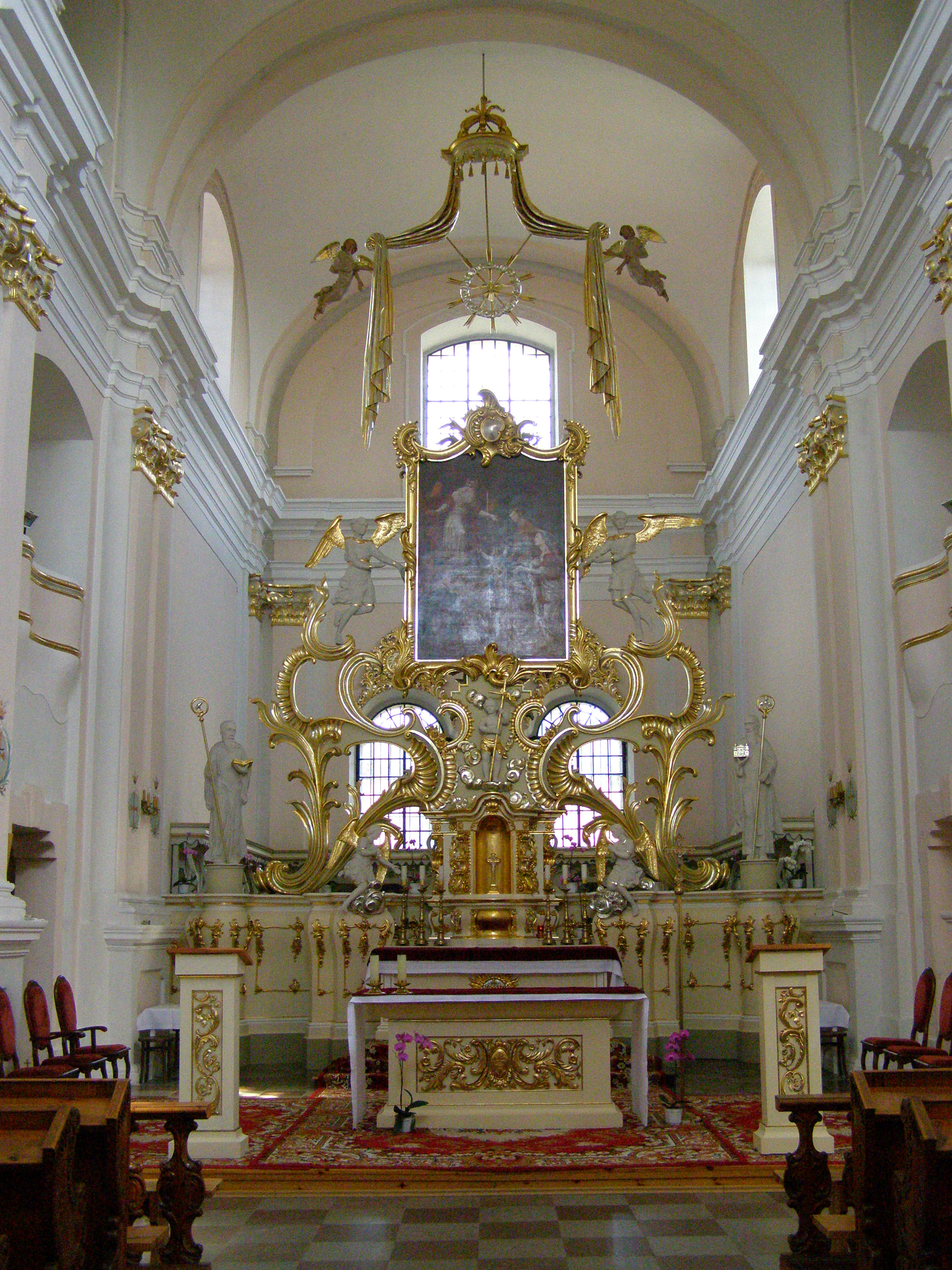 The interior of the church Camedolite, Bieniszew (Poland)